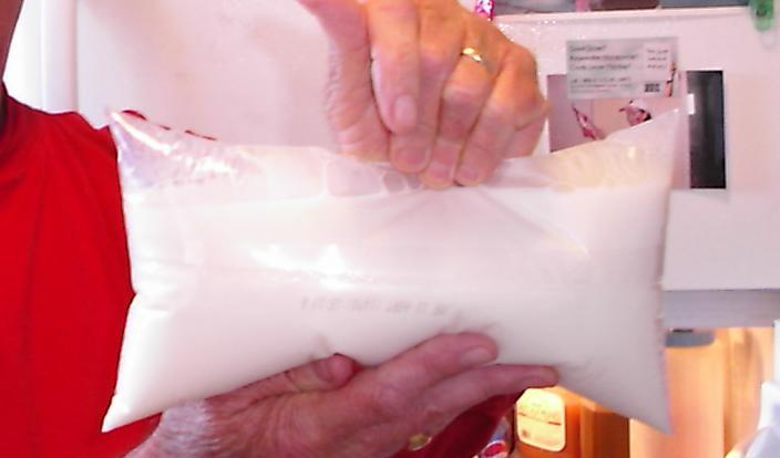 A picture of a milk bag. Taken in 2008 in Sarnia, Ontario. The printed text states the production lot number and best before date.